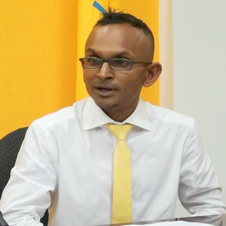 Male' City Councillor